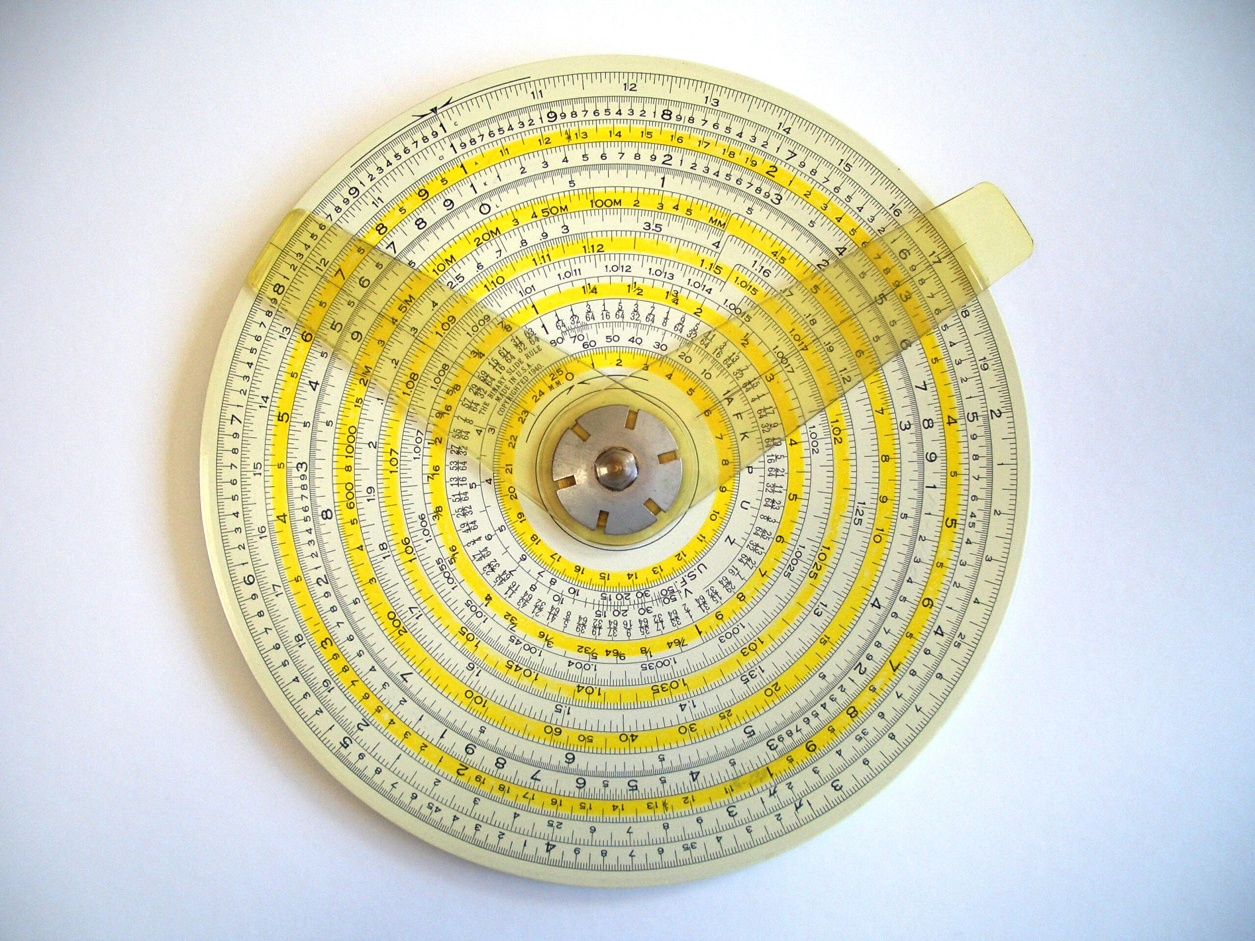 The Gilson Atlas circular slide rule is 8 5/16 inches in diameter.